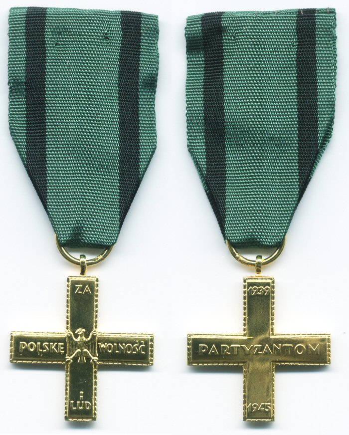 Krzyż Partyzancki (Partizans Cross) - Polish military award, awarded to partizans of the World War Two. The inscription: "Za Polskę, wolność i lud" - For Poland, freedom and the people, "Partyzantom" - To partizans.